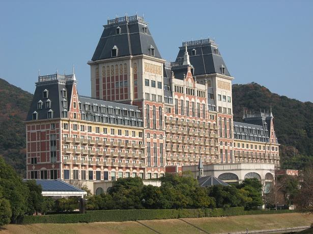 Huis Ten Bosch JR ANA Hotel. Hotel in Nagasaki,Japan., Huis Ten Bosch.